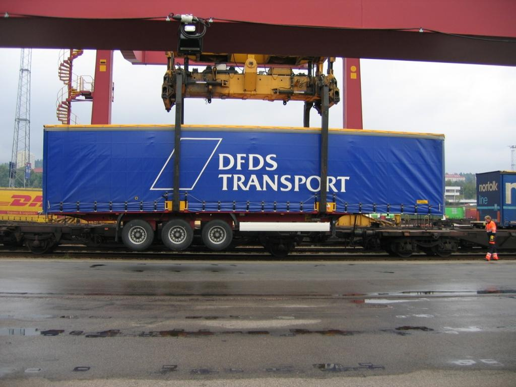 A DFDS Trailer